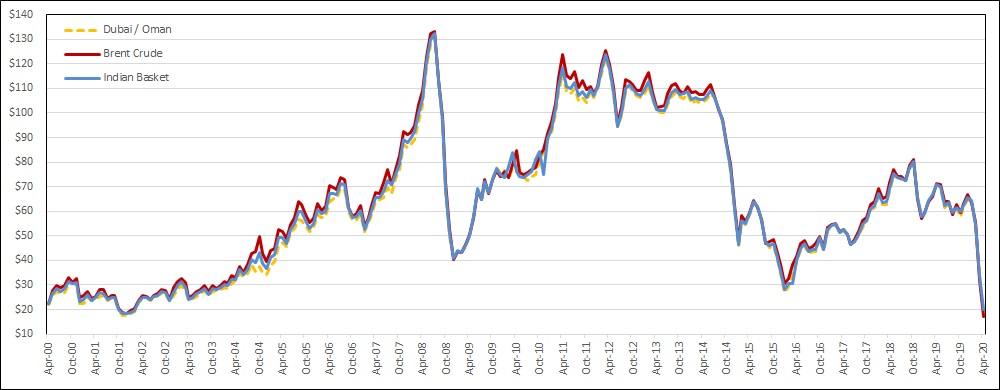 Indian Basket crude oil price comparison with Brent Crude and Dubai and Oman from Apr 2000 to Apr 2020. Source:- Indian basket: Brent: Dubai